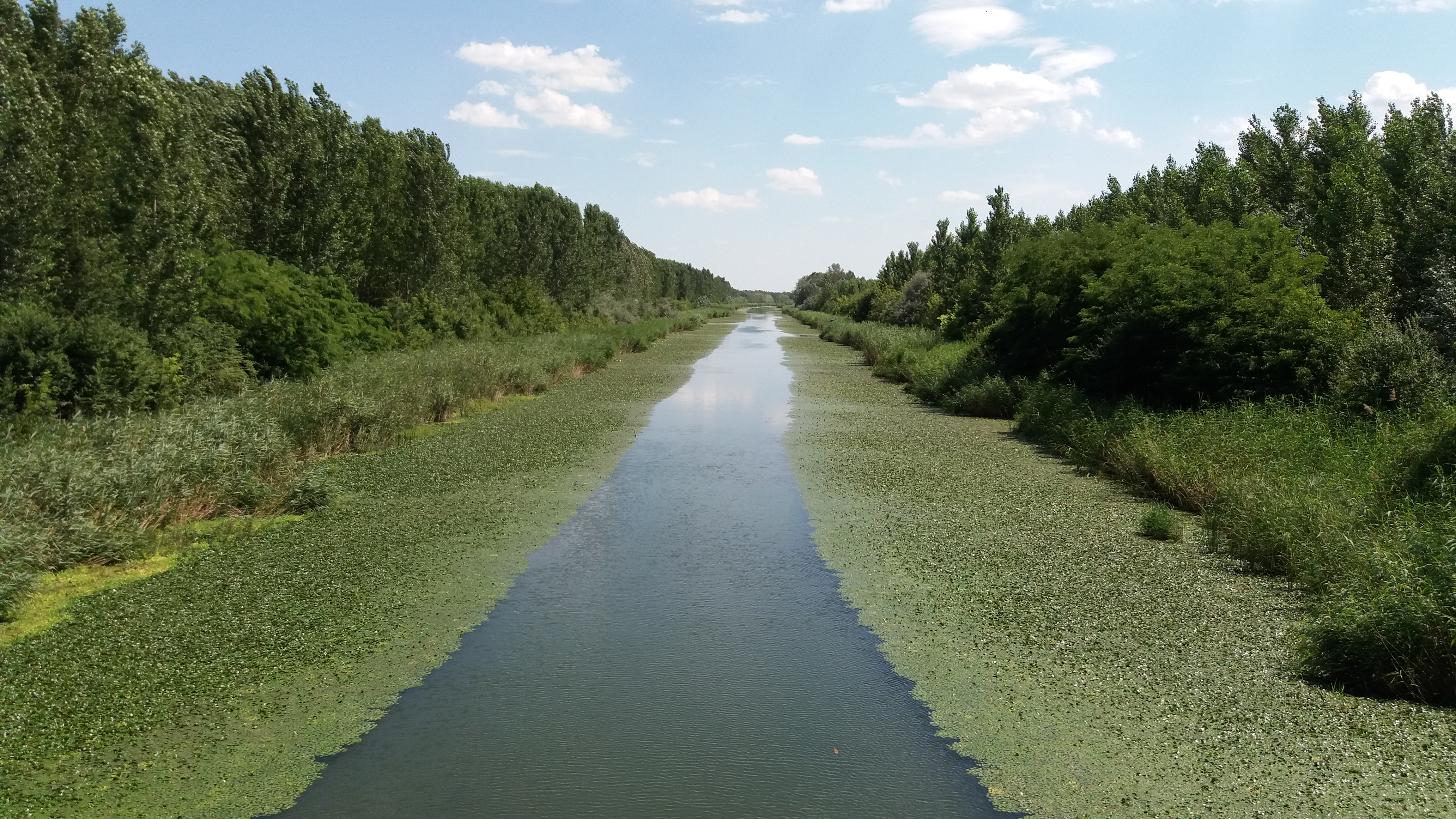 main channel